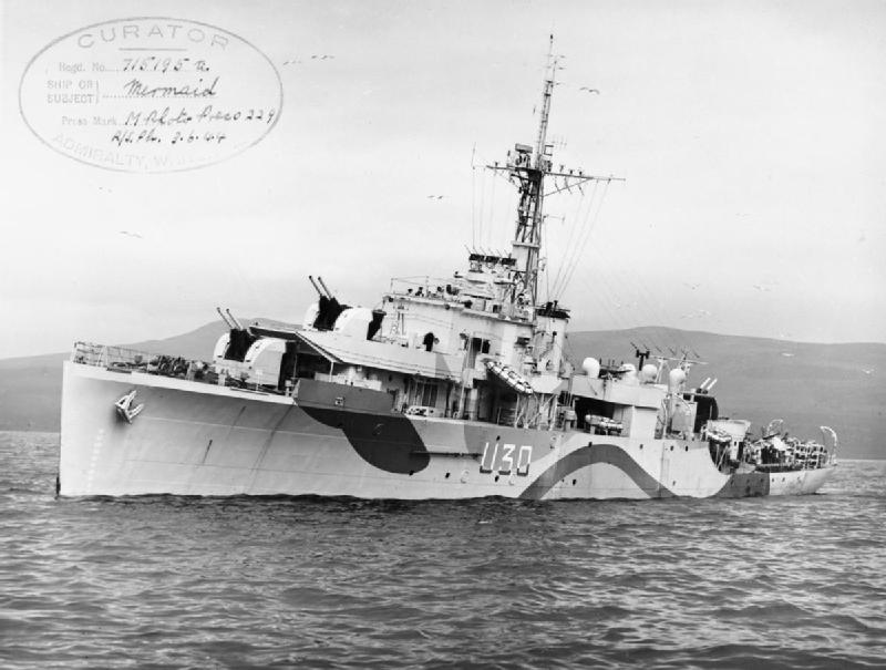 Photograph of British Black Swan class sloop HMS Mermaid (U30) underway in coastal waters.